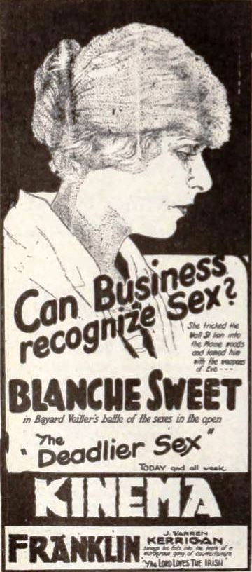 Newspaper advertisement for the American comedy film The Deadlier Sex (1920) with Blanche Sweet, originally for the Kinema Theater in San Francisco, California, on page 56 of the June 5, 1920 Exhibitors Herald.